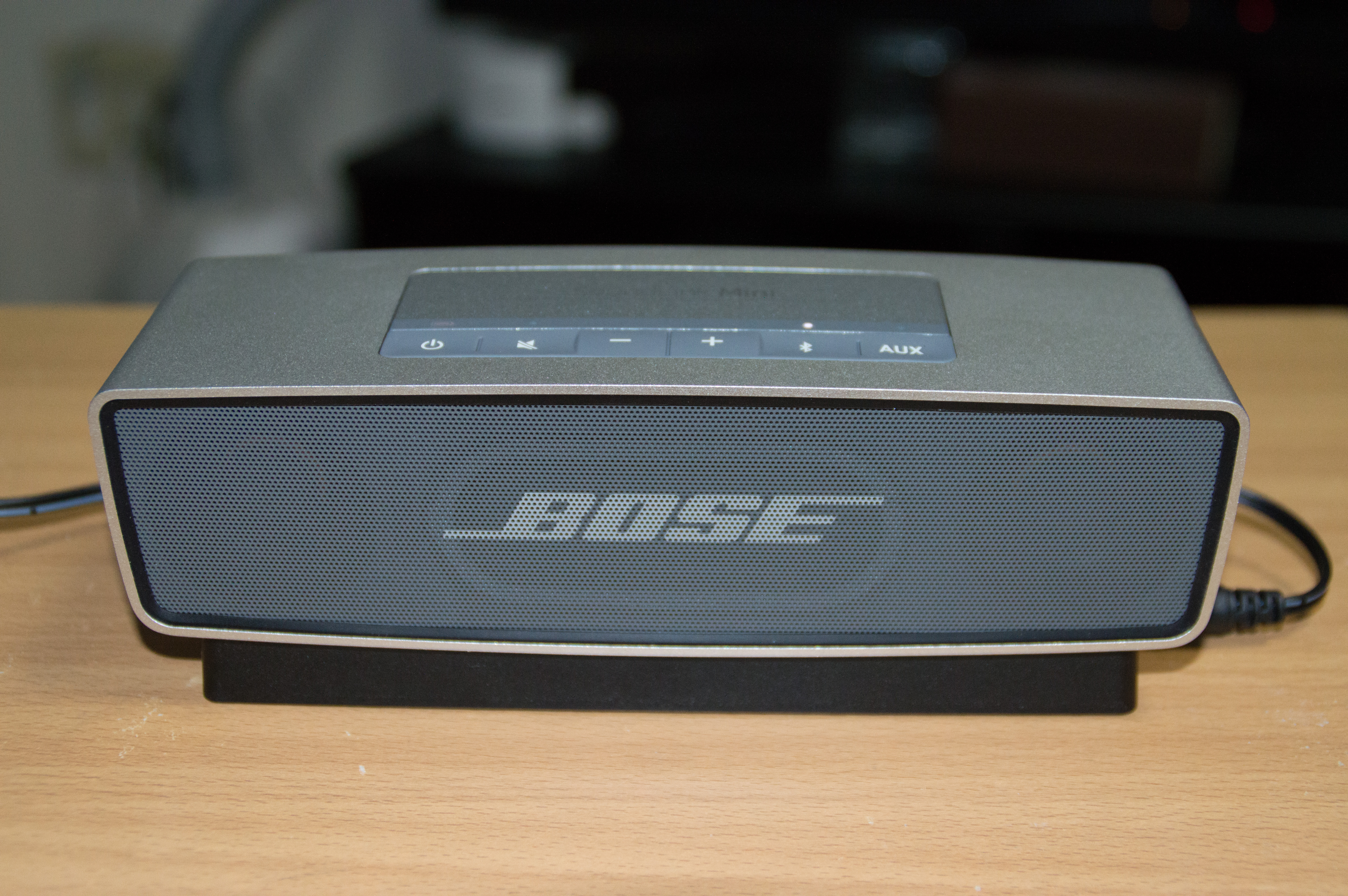 High resolution photo of Bose Sound Link Mini.